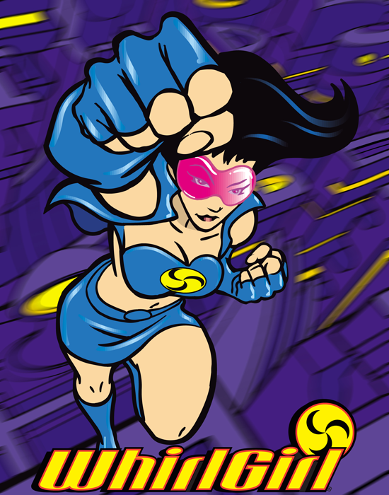 WhirlGirl leaps over city